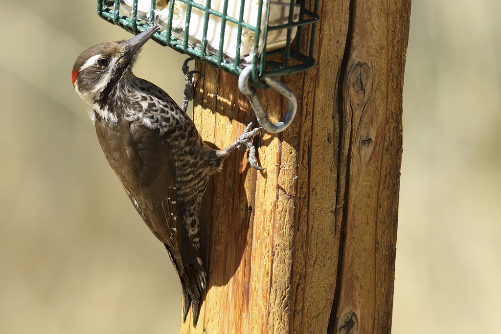 The Arizona woodpecker (Picoides arizonae) is native to Arizona and is very similar in appearance to the Strickland's Woodpecker, although it is considered as a different species. It was not recognized as a unique species until the year 2000